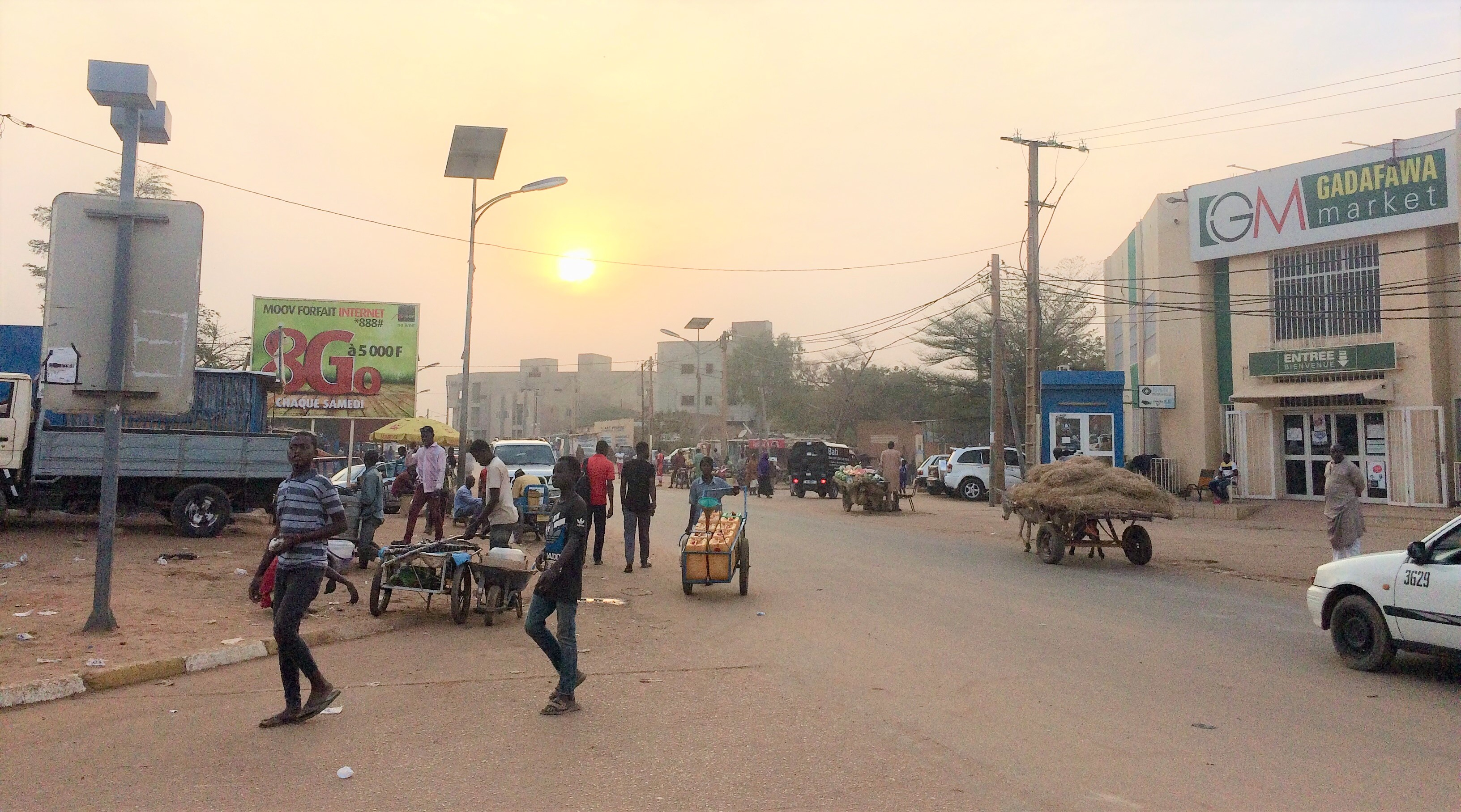 Sunset on the Boulevard de la Jeunesse (Boulevard of the Youth), Yantala Ancien neighborhood, Niamey, Niger.